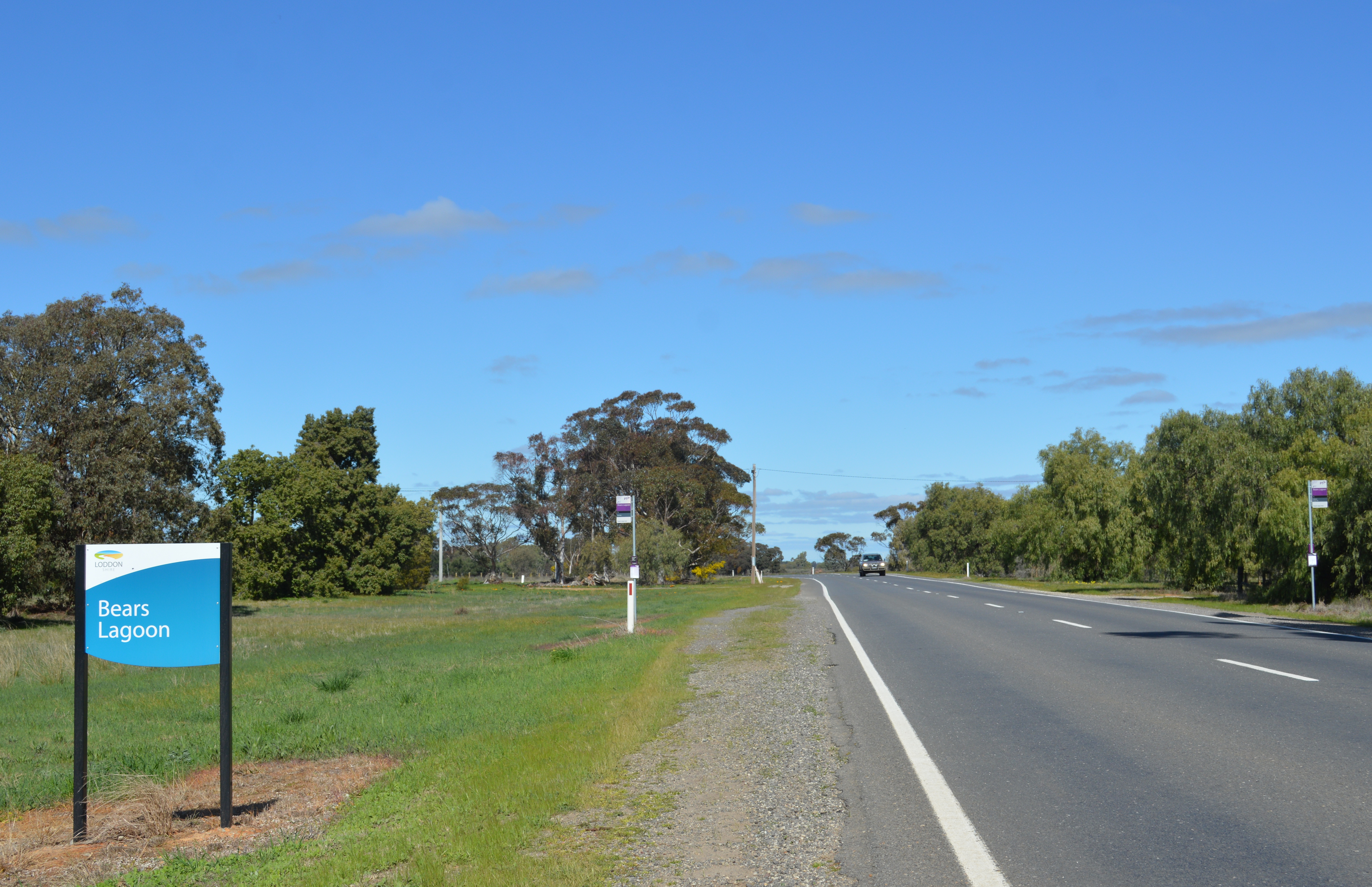 Town entry sign at Bears Lagoon, Victoria